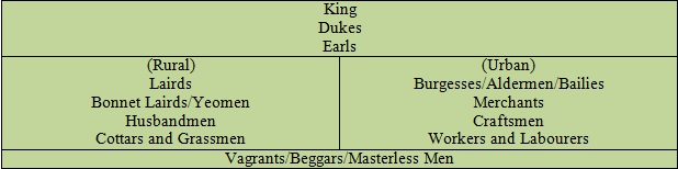 A table of ranks in early modern Scotland. Sources: R. Mitchison, Lordship to Patronage, Scotland 1603-1745 (Edinburgh: Edinburgh University Press, 1983), ISBN 074860233X, pp. 79 and 82; A. Grant, "Service and tenure in late medieval Scotland 1324-1475" in A. Curry and E. Matthew, eds, Concepts and Patterns of Service in the Later Middle Ages (Woodbridge: Boydell, 2000), ISBN 0851158145, pp. 99 and 145-65; J. Wormald, Court, Kirk, and Community: Scotland, 1470-1625 (Edinburgh: Edinburgh University Press, 1991), ISBN 0748602763, pp. 48-52; J. E. A. Dawson, Scotland Re-Formed, 1488-1587 (Edinburgh: Edinburgh University Press, 2007), ISBN 0748614559, pp. 286 and 331; J. Goodacre, State and Society in Early Modern Scotland (Oxford: Oxford University Press, 1999), ISBN 019820762X, pp. 57-60; K. Stevenson, "Thai war callit knynchtis and bere the name and the honour of that hye ordre: Scottish knighthood in the fifteenth century", in L. Clark, ed., Identity and Insurgency in the Late Middle Ages (Woodbridge: Boydell, 2006), ISBN 1843832704, p. 38.